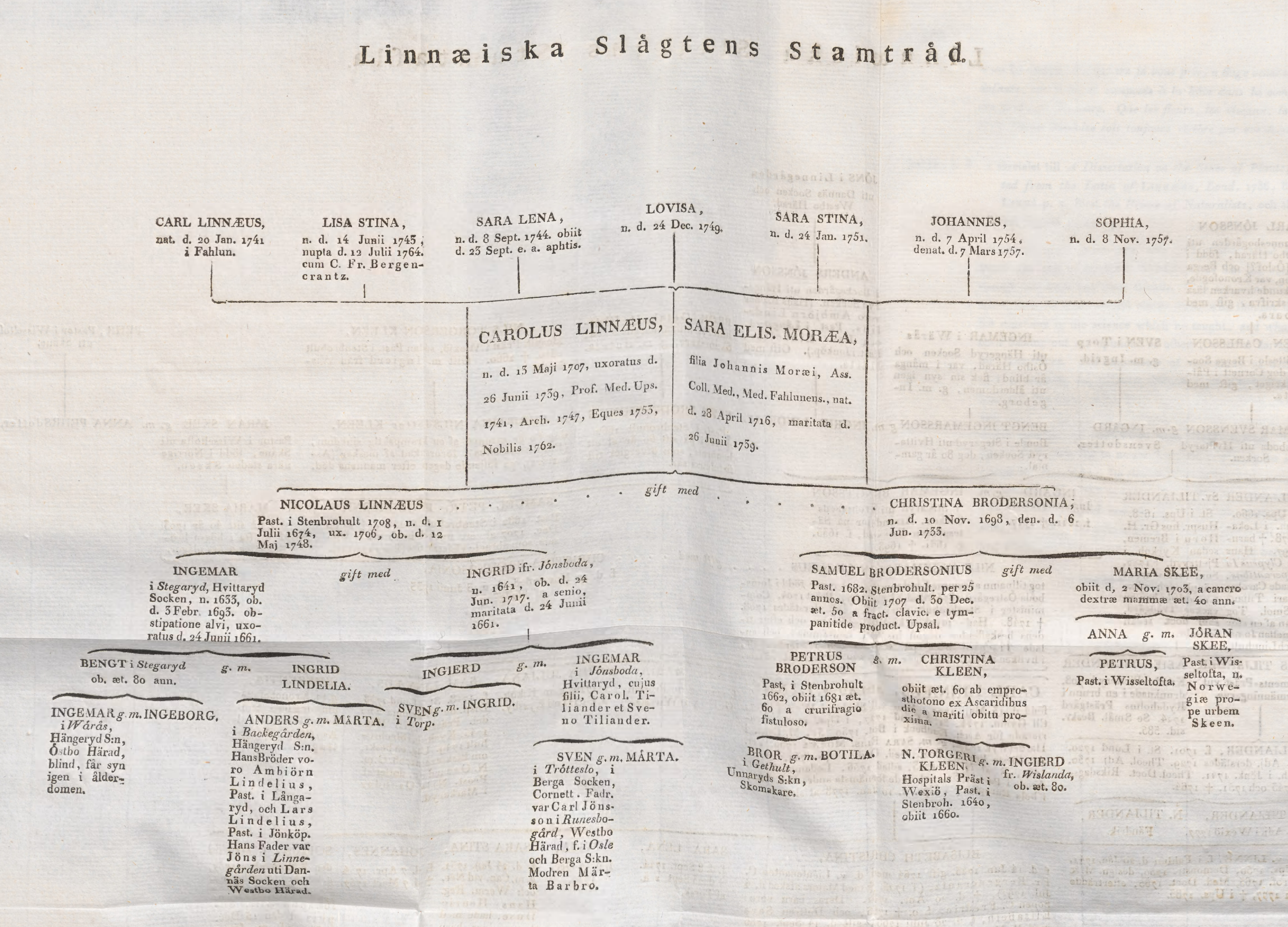 A scan of the page of Linnaeus family tree from Egenhändiga anteckningar af Carl Linnæus om sig sjelf : med anmärkningar och tillägg by Carl Linnaeus.